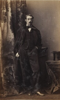 Captain Frederick Marshall